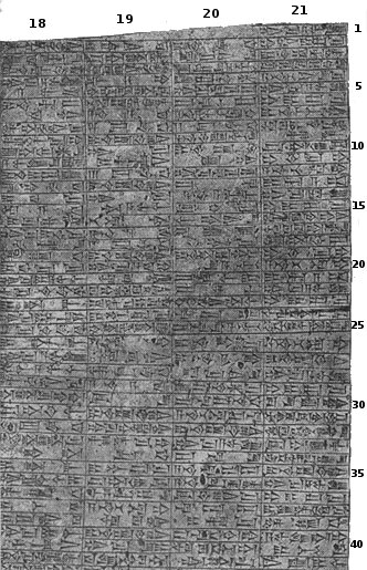 contrast enhanced version of Image:CodeOfHammurabi.jpg Category:Akkadian literature